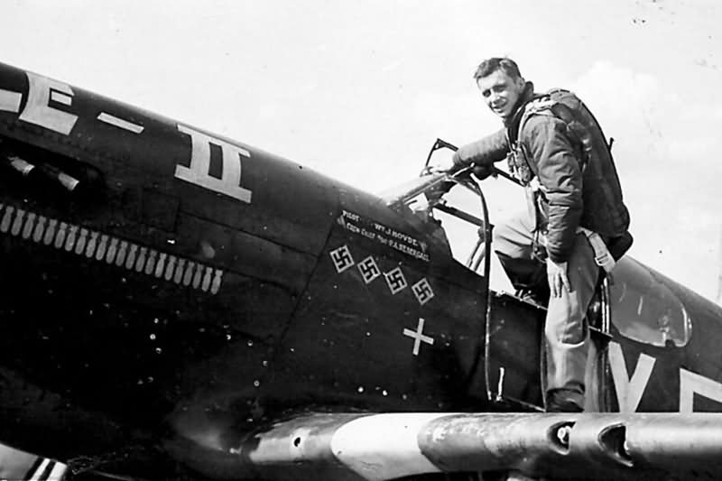 Fighter ace William J. Hovde (then a captain) of the 358th FS, 355th FG 8th AF and his P-51B. Of note the white cross under the swastikas: that stencil signified that Hovde’s Mustang was equiped with a fuselage fuel tank.